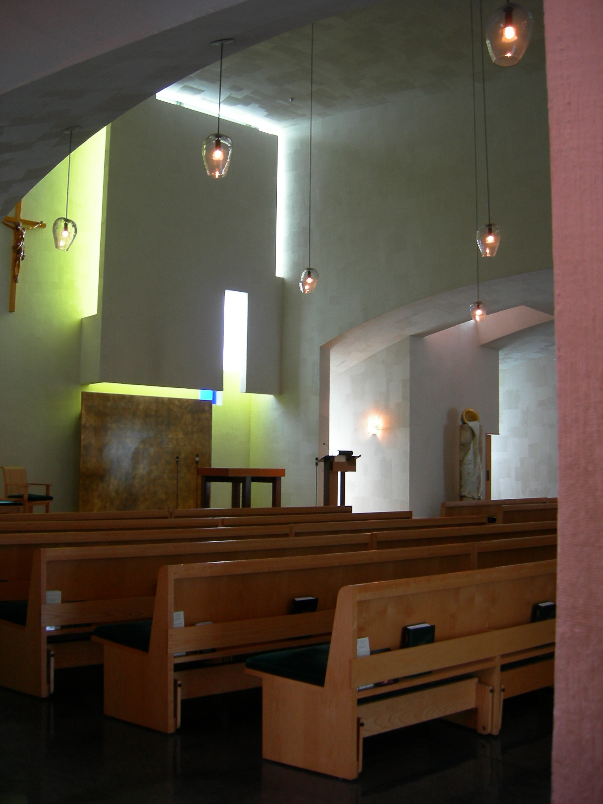 Interior, Chapel of St. Ignatius, Seattle University. Architect: Steven Holl.